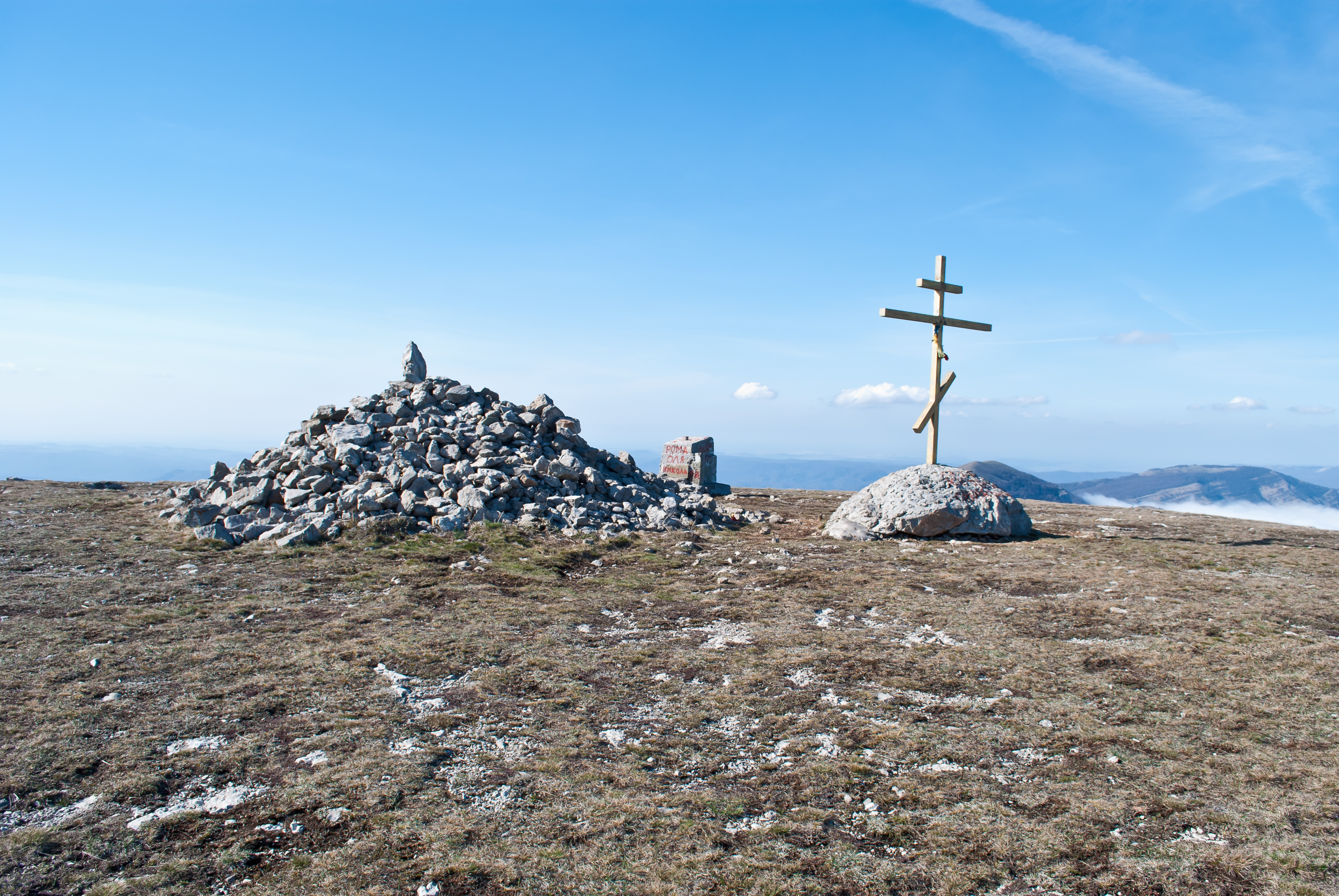 The top of Roman-Kosh mount.